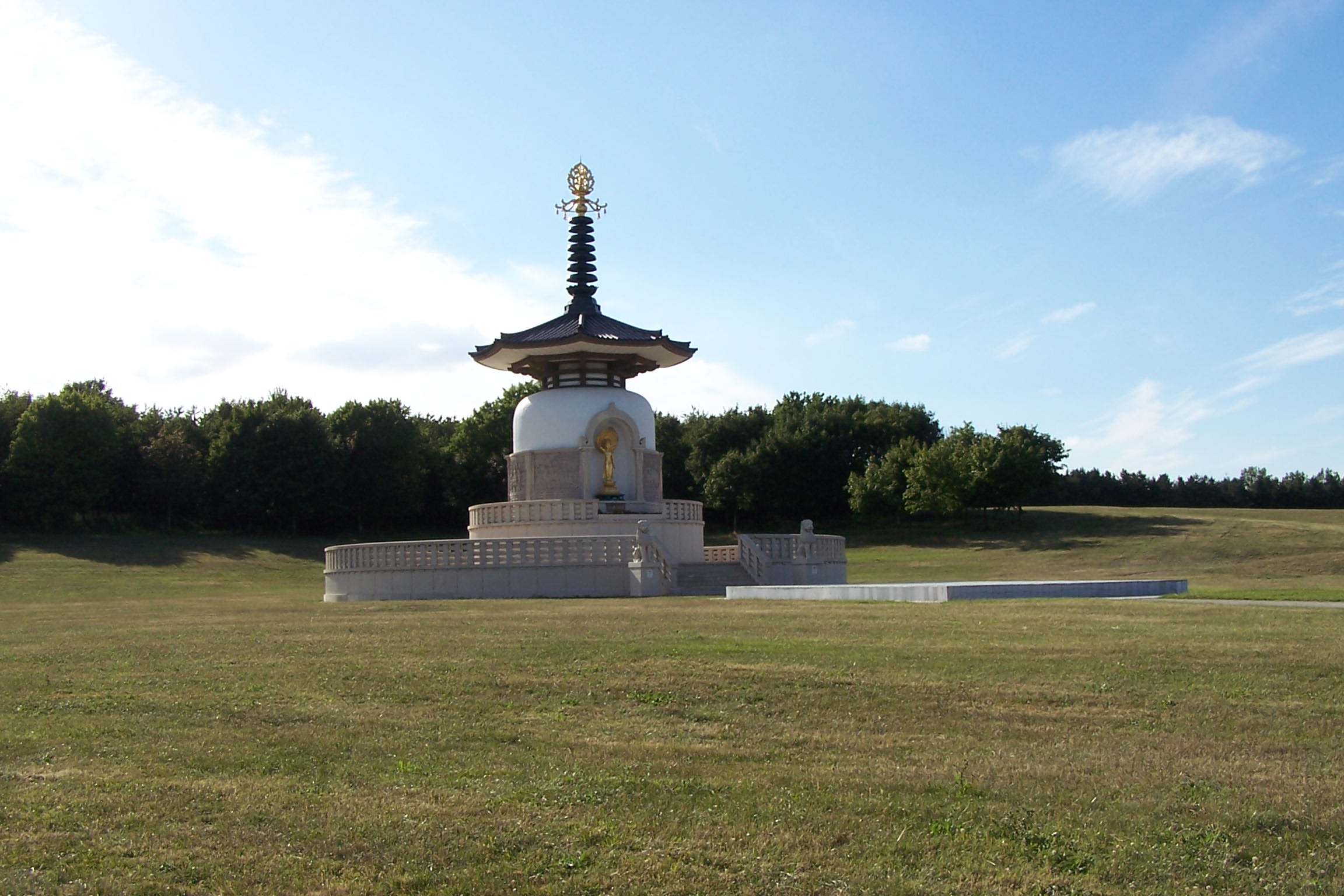 Milton Keynes, the Peace Pagoda, a buddhist shrine devoted to world peace. Photo Cnyborg, July 2005